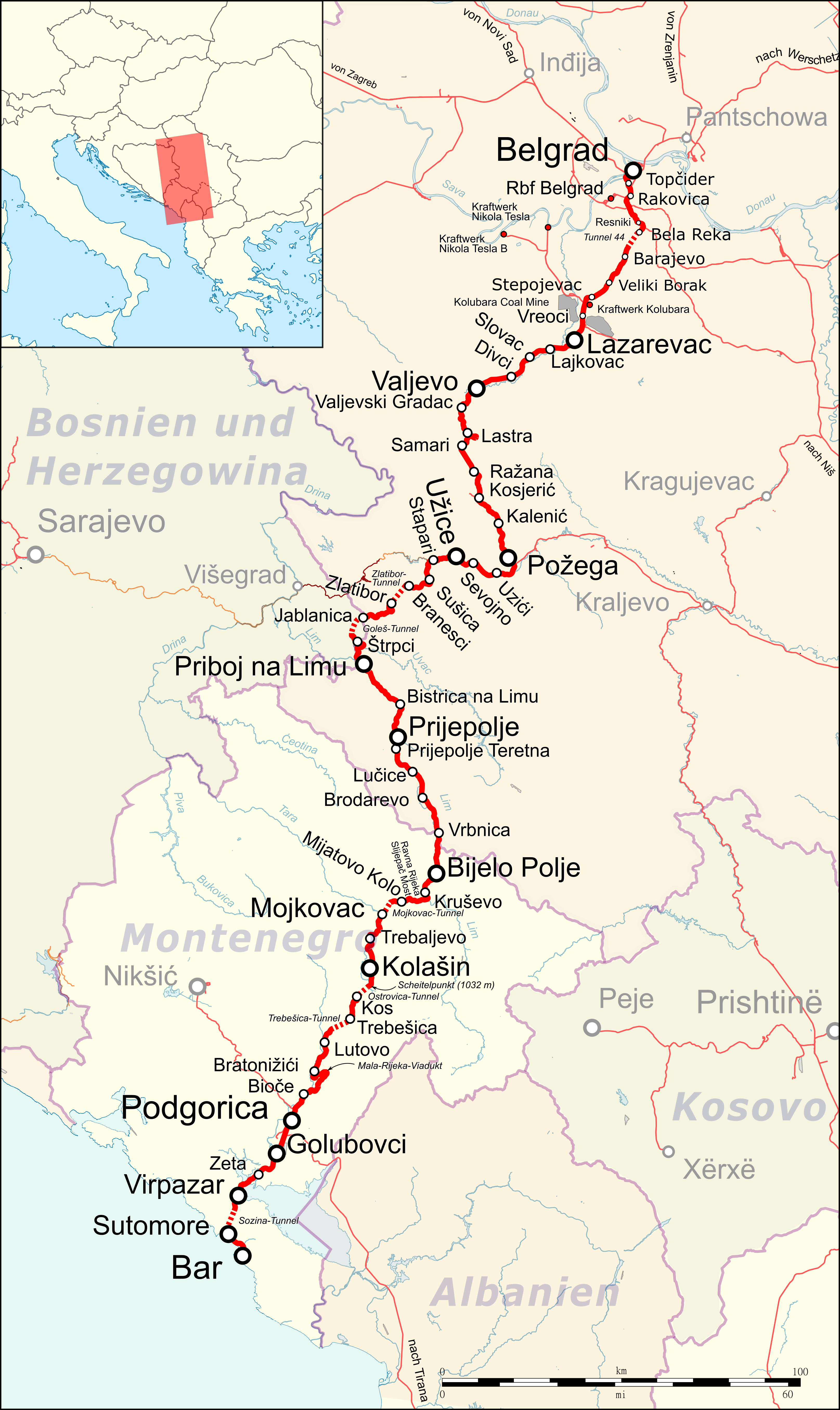 Location map of Belgrade–Bar railway without stops